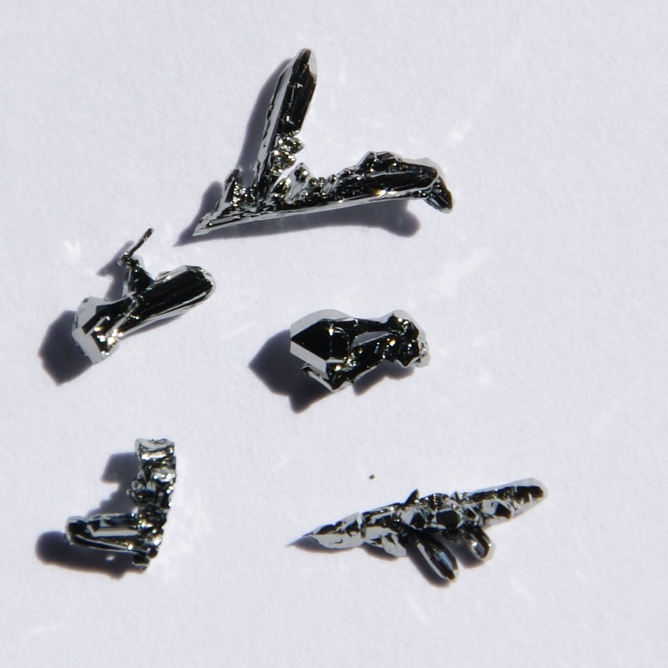 Tiny germanium crystals, the largest is 5 mm long.